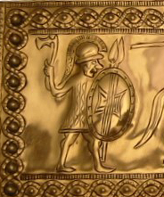 Part of the Reproduction of Bronze belt plaque from Vače, Slovenia,Yugoslavia,400 BC, Hallstatt culture (Illyrian/Celt warriors),Identical to Illyrians, see "Early Roman Armies (Men-at-Arms) by Nicholas Sekunda and Richard Hook,1995,ISBN-10: 1855325136,Colour plates,The Venetic fighting system,Fifth century BC"